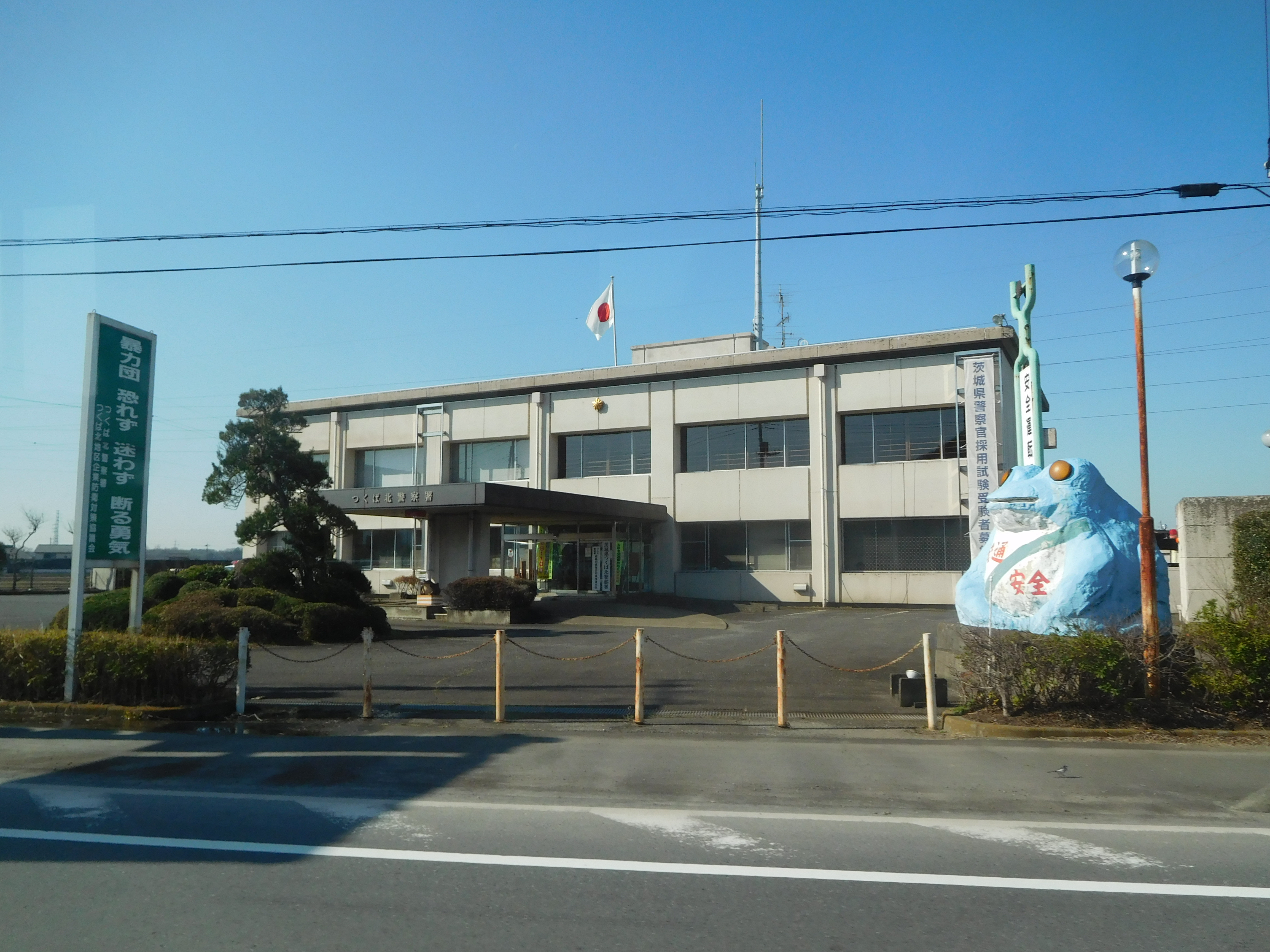 This is Tsukuba police station Tsukuba-kita police center in Tsukuba, Ibaraki, Japan.